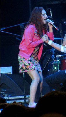 Picture of musical theatre actress and singer Gisela Ponce de León on 28 February 2011.